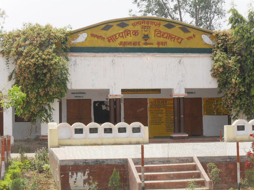 Madhayamik Vidayalya, High School Kurda